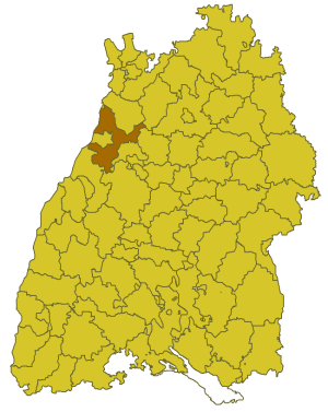 Map of Baden-Württemberg with the former county of Karlsruhe before 1973